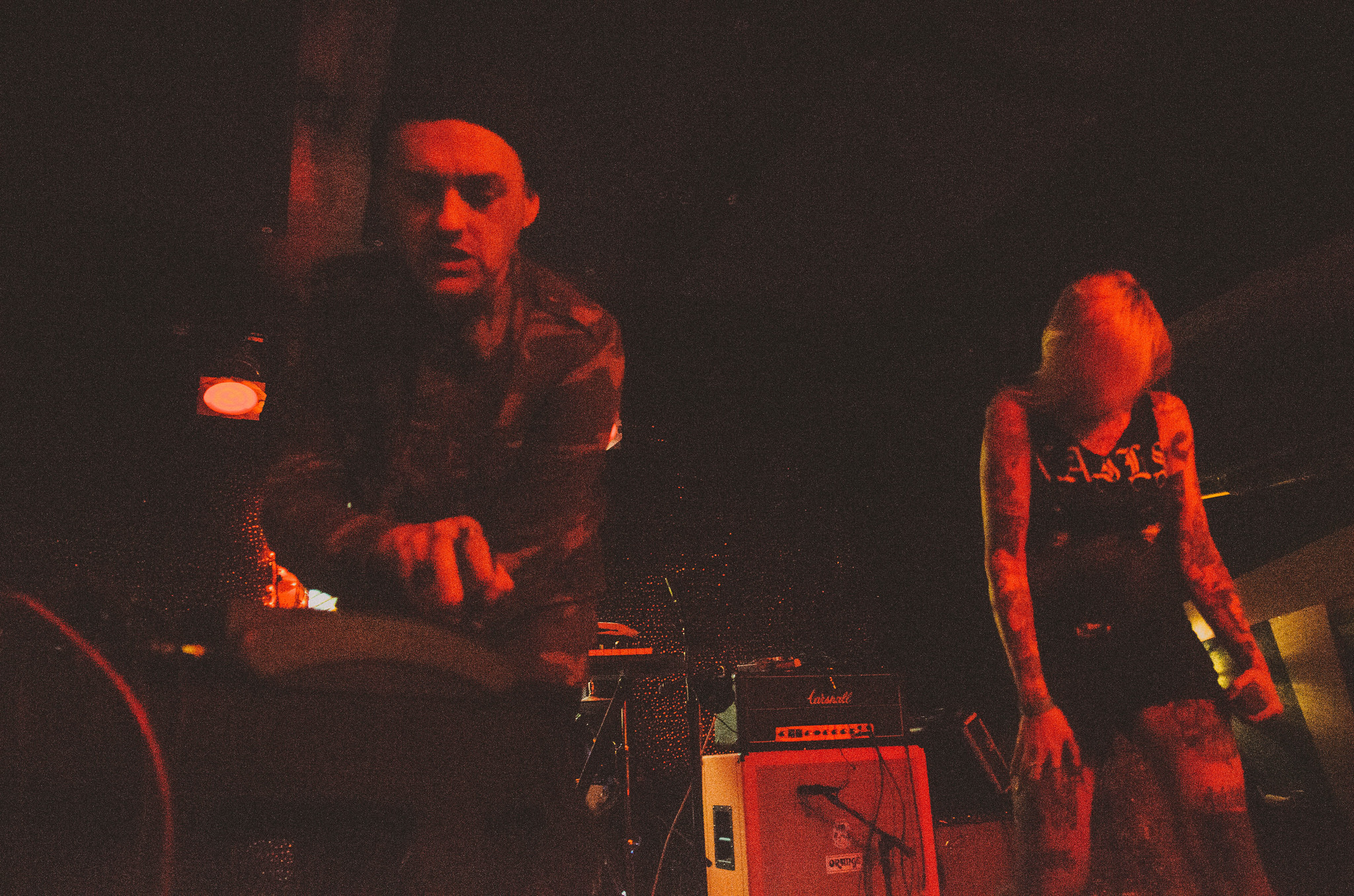 Youth Code @ Bottom of the Hill